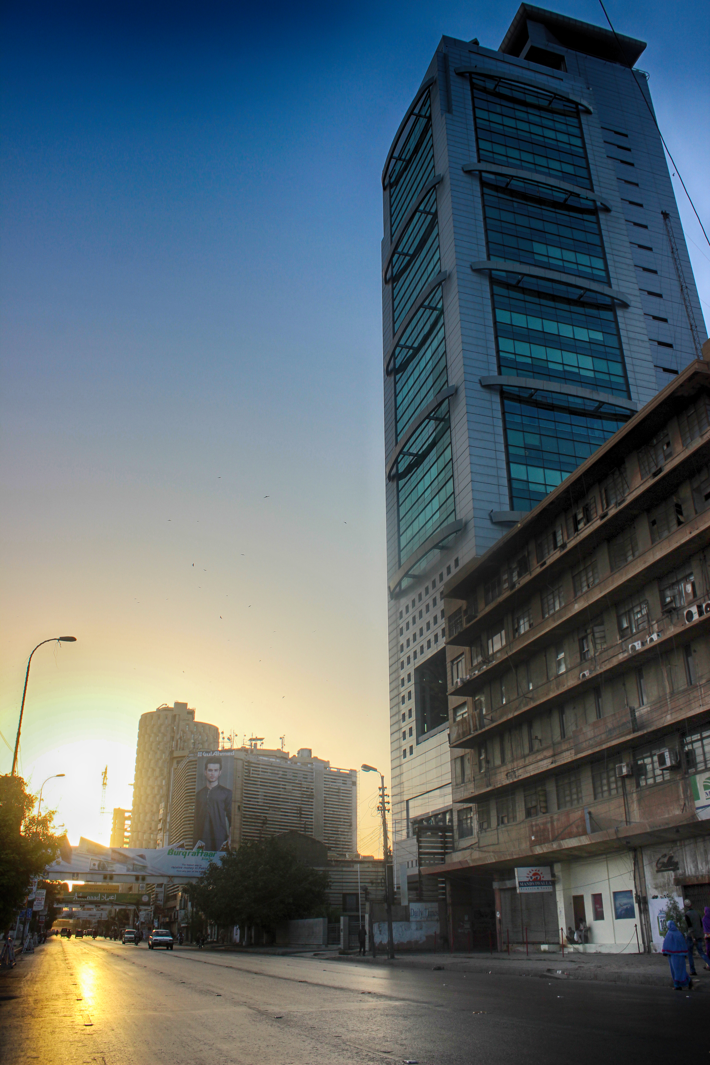 MCB Tower This is a photo of a monument in Pakistan identified as the SD-U-20